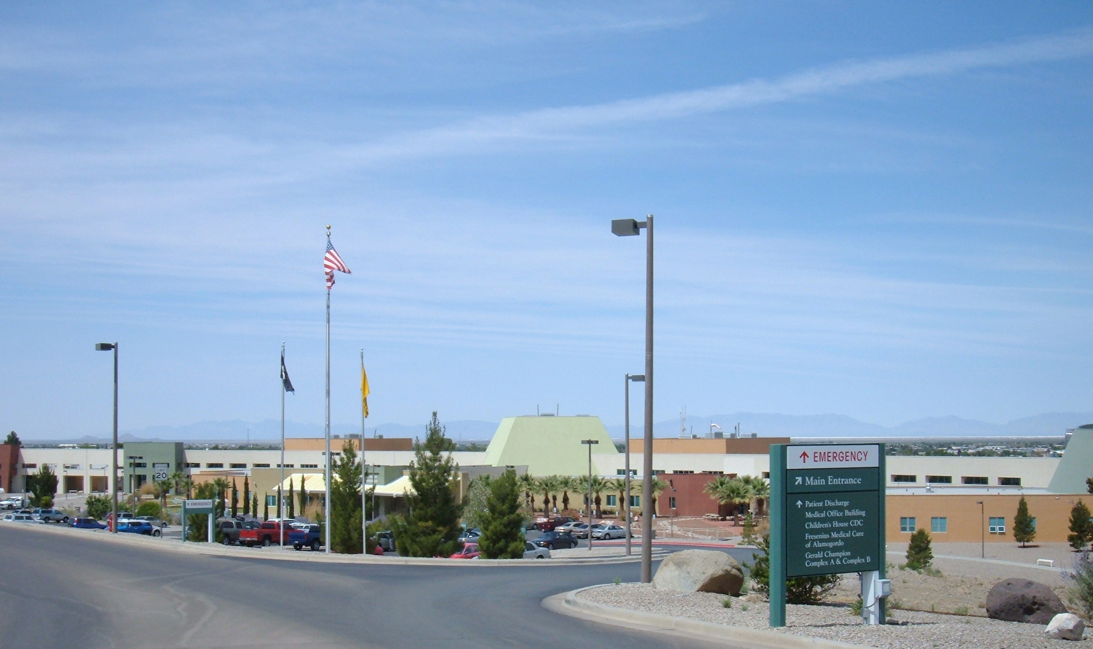 Main building at Gerald Champion Regional Medical Center, a hospital in Alamogordo, New Mexico.